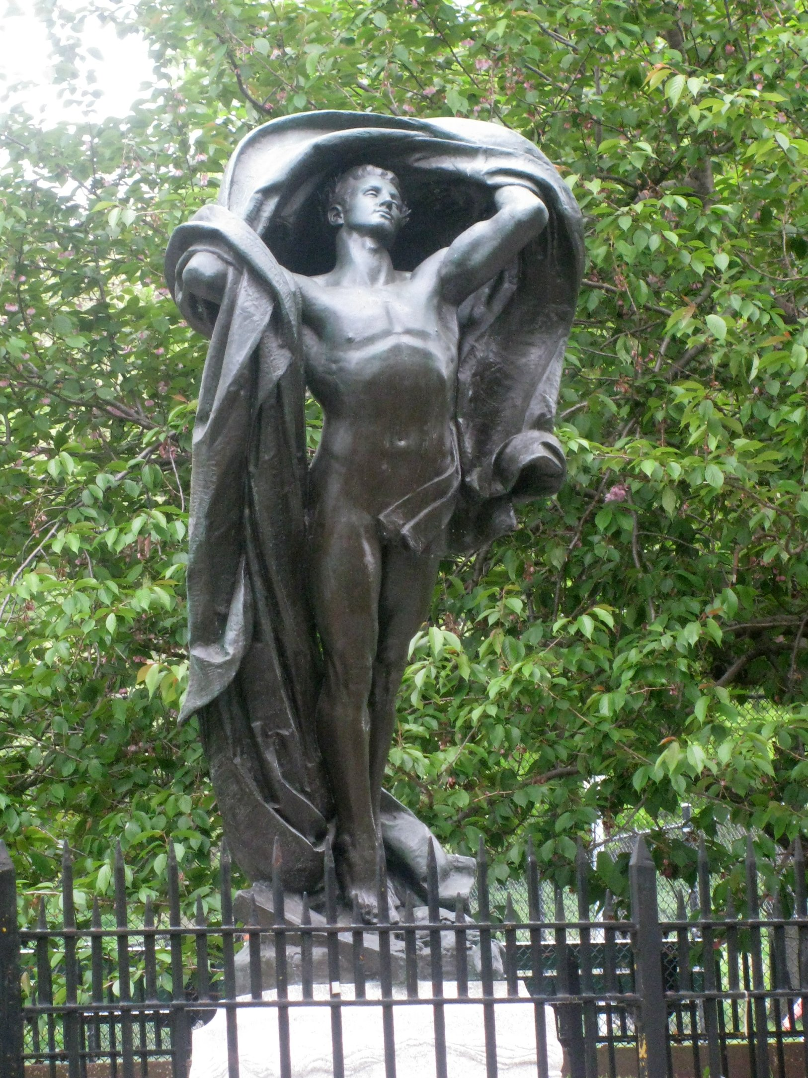 Highland Park, Brooklyn. The inscription on the pedestal reads, "IN HONOR OF THOSE WHO FOUGHT FOR OUR COUNTRY 1917-1918."